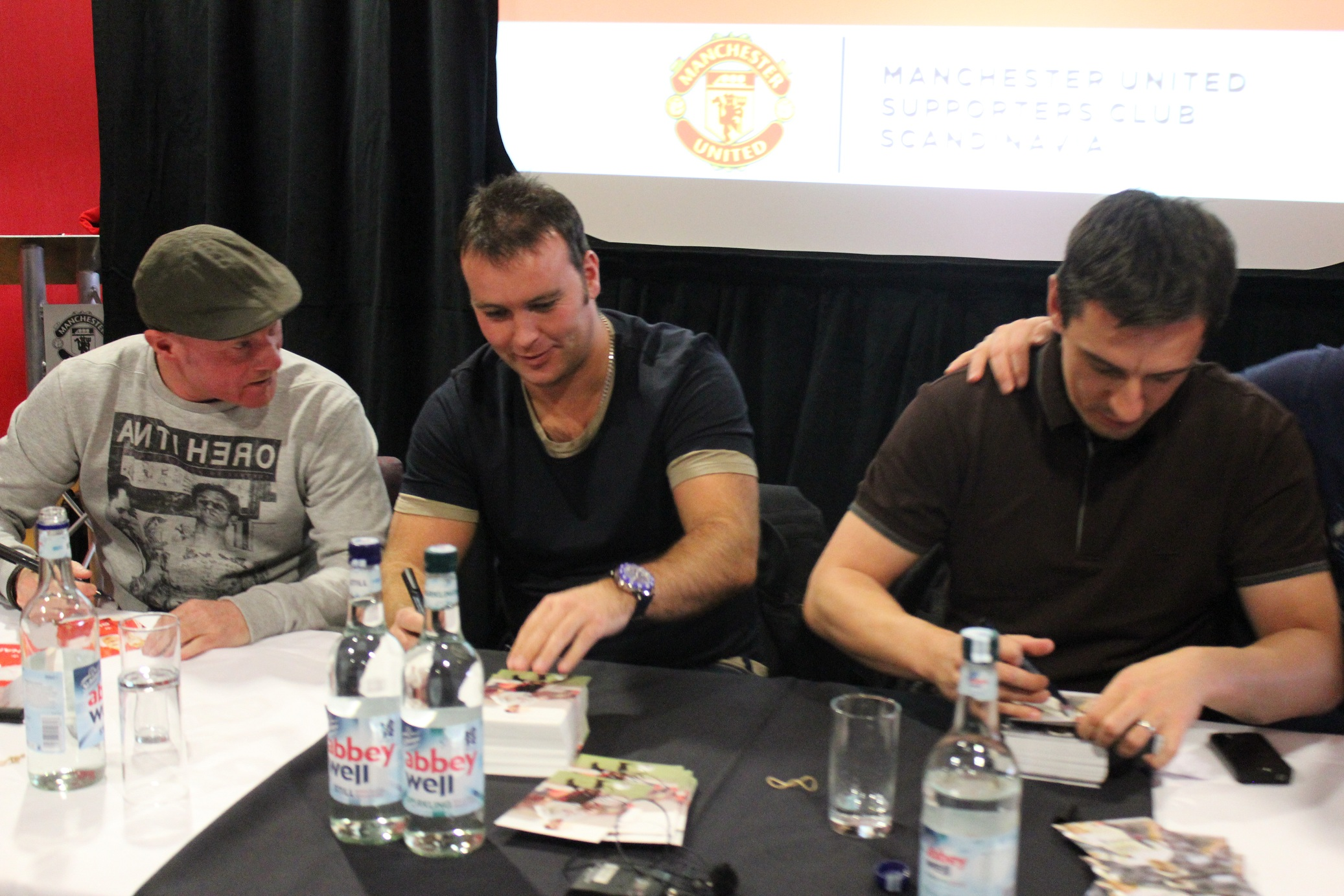 This is a part of the famous youth team from 1992, with George Switzer, Ben Thornley and Gary Neville. This photo was taken in november 2012, when Manchester United Supporters Club Scandinavian Branch invited them to a reunion at Old Trafford.